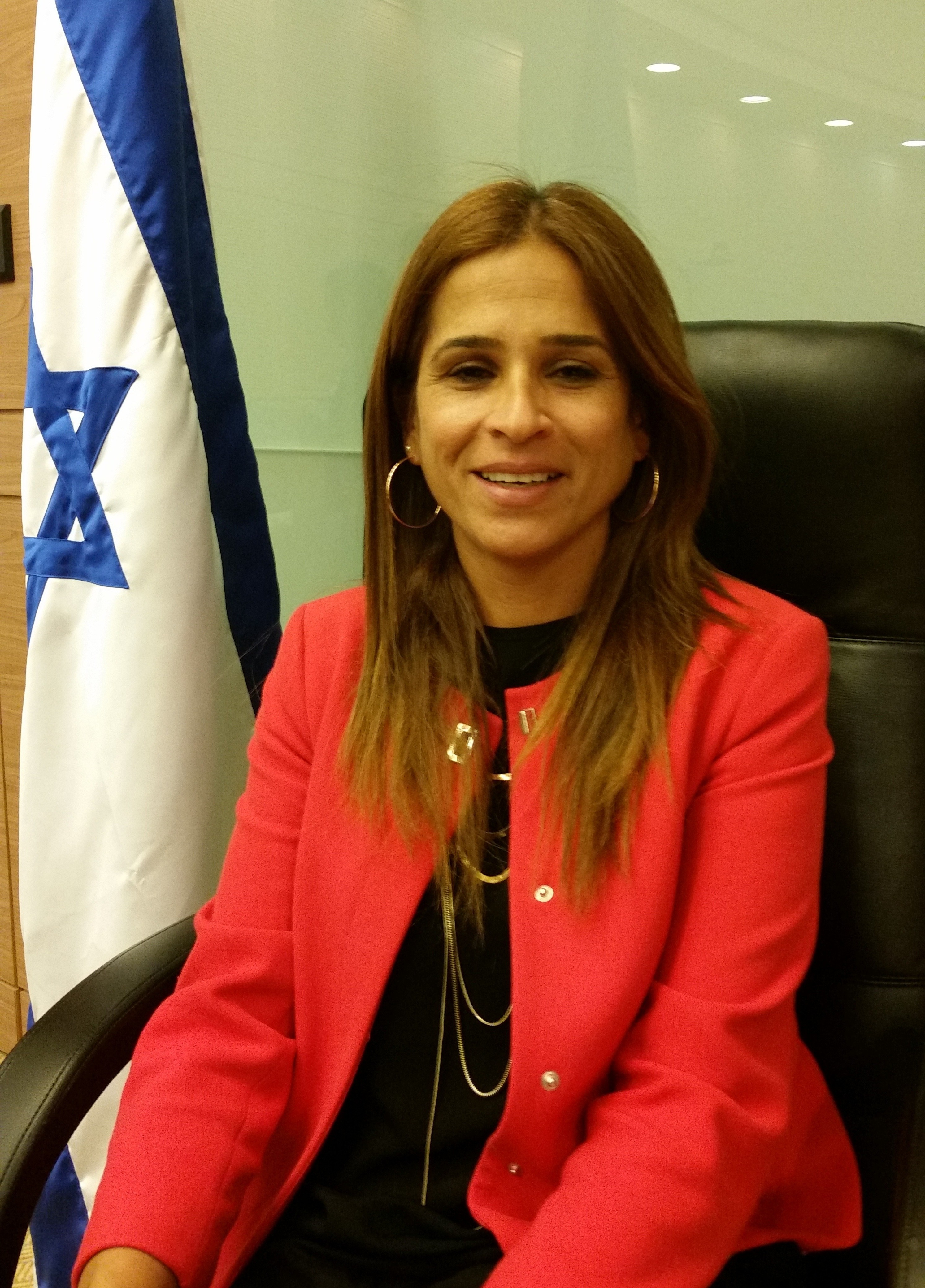 Meirav Ben Ari, an Israeli politician and a member of the Knesset